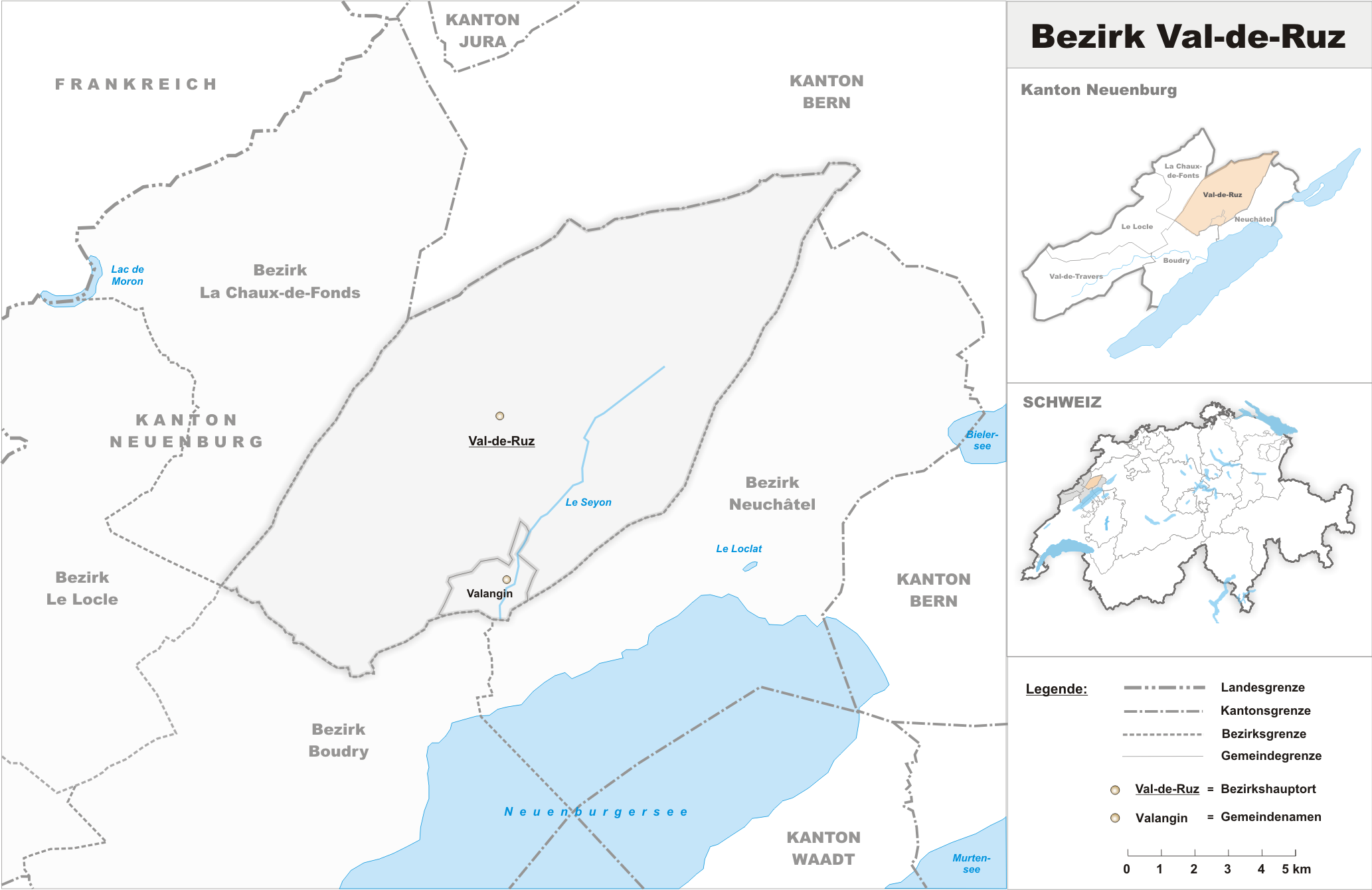 Municipalities in the district of Val-de-Ruz